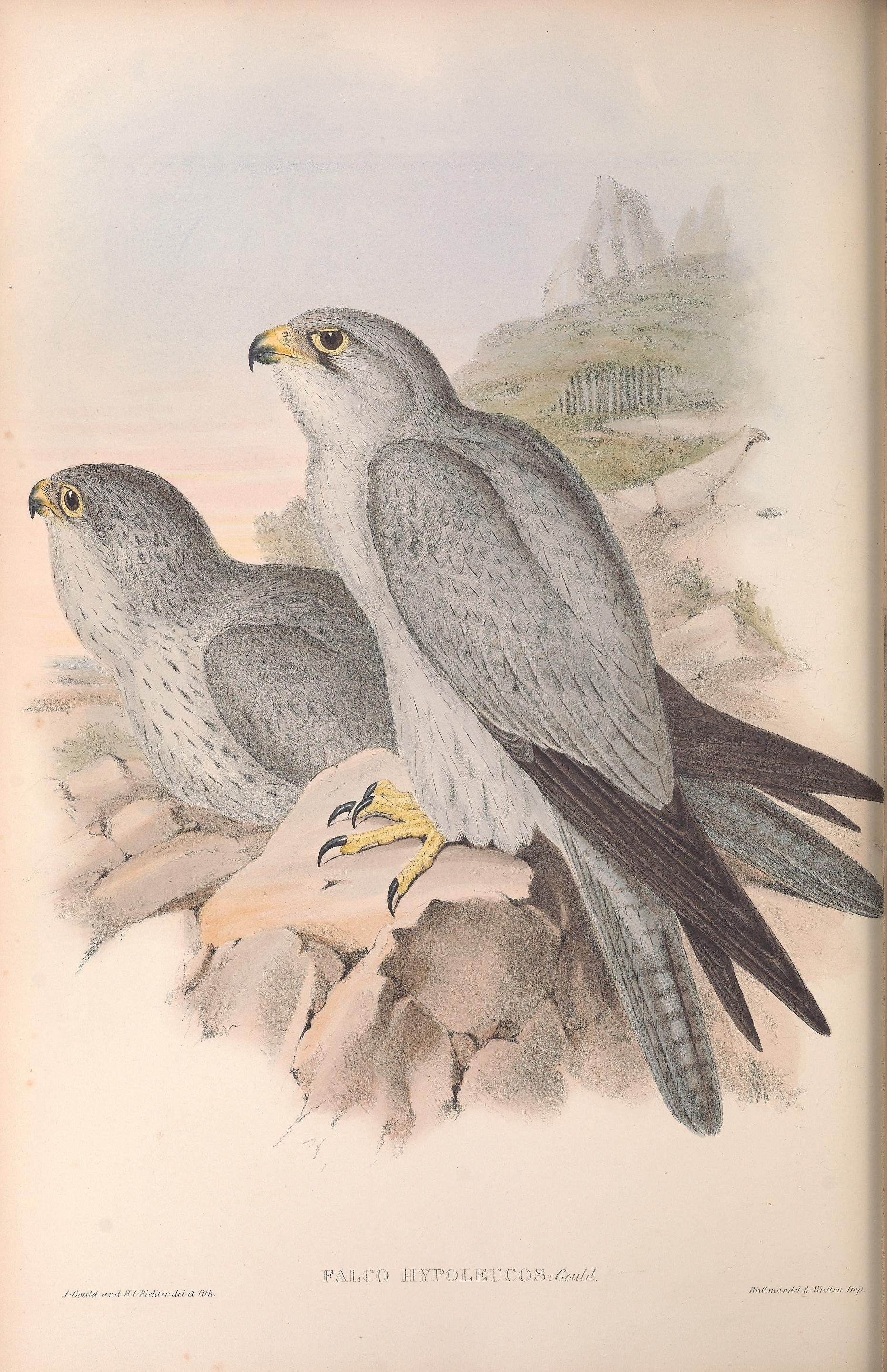 Falco hypoleucos in The birds of Australia. London. Printed by R. and J. E. Taylor.